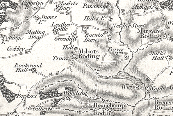 1805 Ordnance Survey map of Abbess Roding, then termed 'Abbots Roding', in Uttlesford, Essex, England